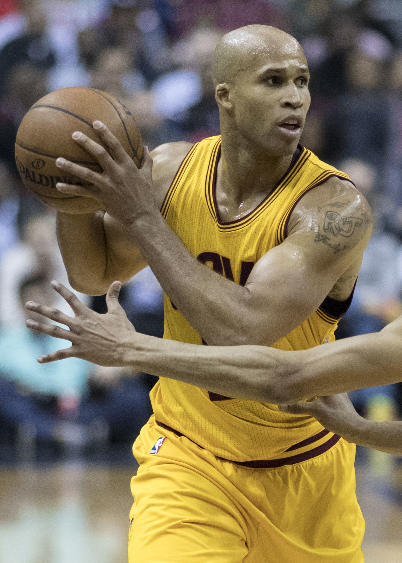 Richard Jefferson of the Cleveland Cavaliers in action against the Washington Wizards during a game on February 6, 2017 at Verizon Center in Washington, DC.